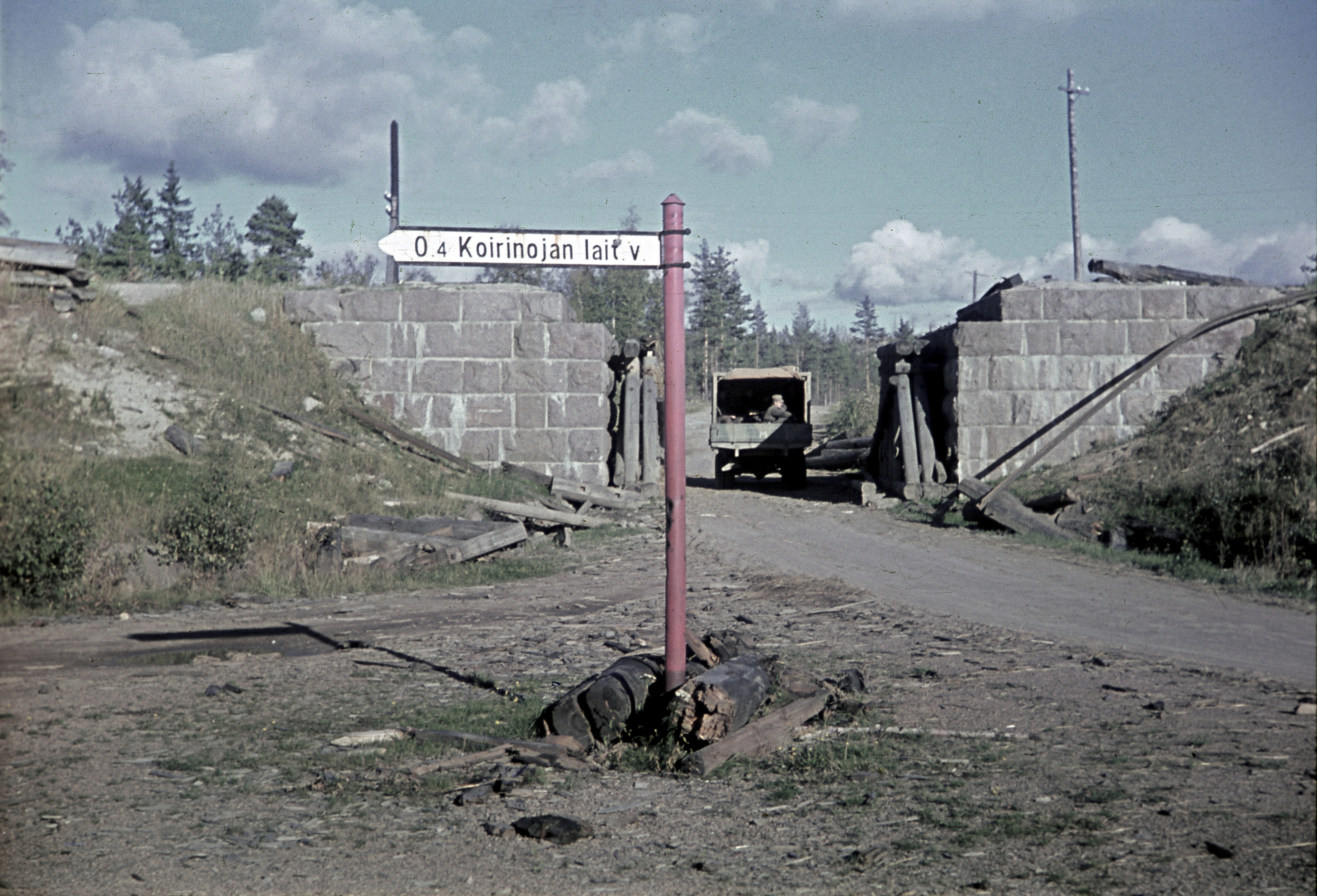 Koirinojan alikäytävällä. Pioneerimme ovat räjäyttäneet rautatiesillan.